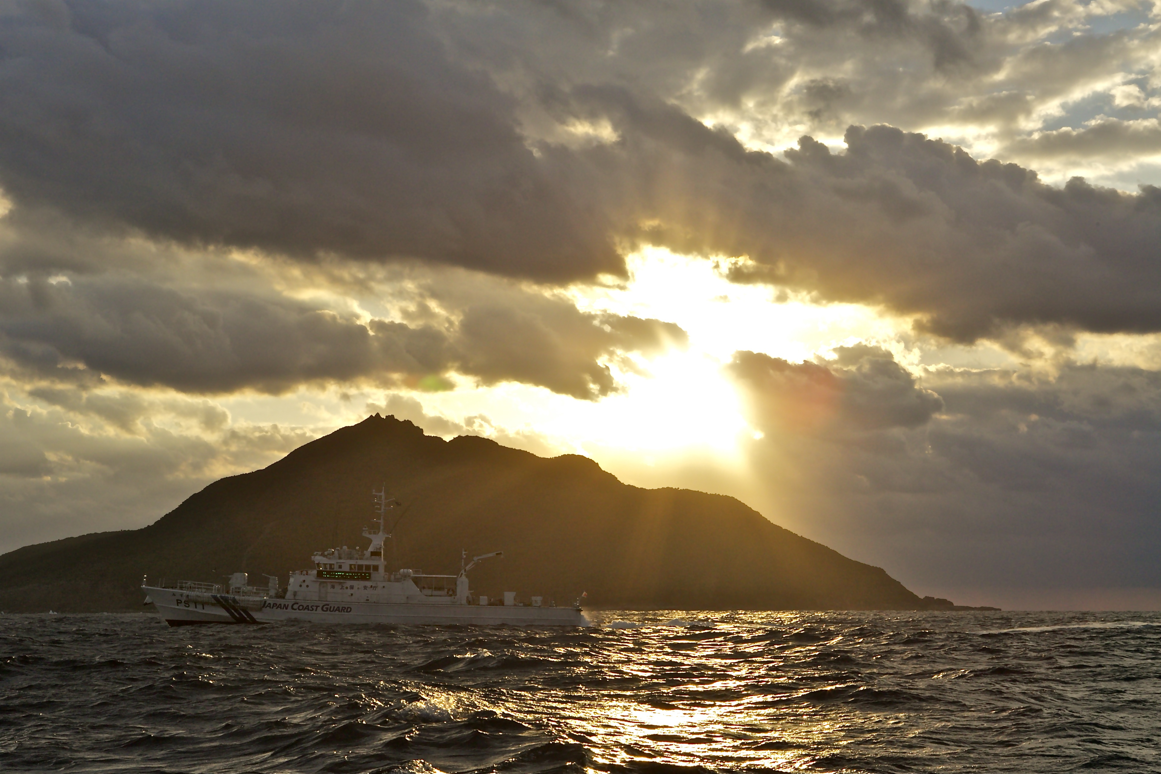 A Coast Guard patrol vessel passes by Uotsuri, the largest island in the Senkaku/Diaoyu chain. Now uninhabited, it used to be home to 248 Japanese, in a community of 99 houses in the late 1890s. They were mostly employed working in a Bonito flake factory on the island.